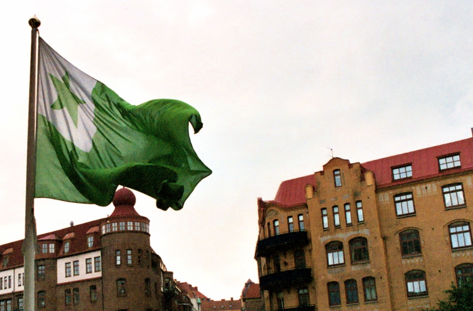 The traditional Esperanto flag flying outside the 2003 World Esperanto Congress in Göteberg, Sweden.